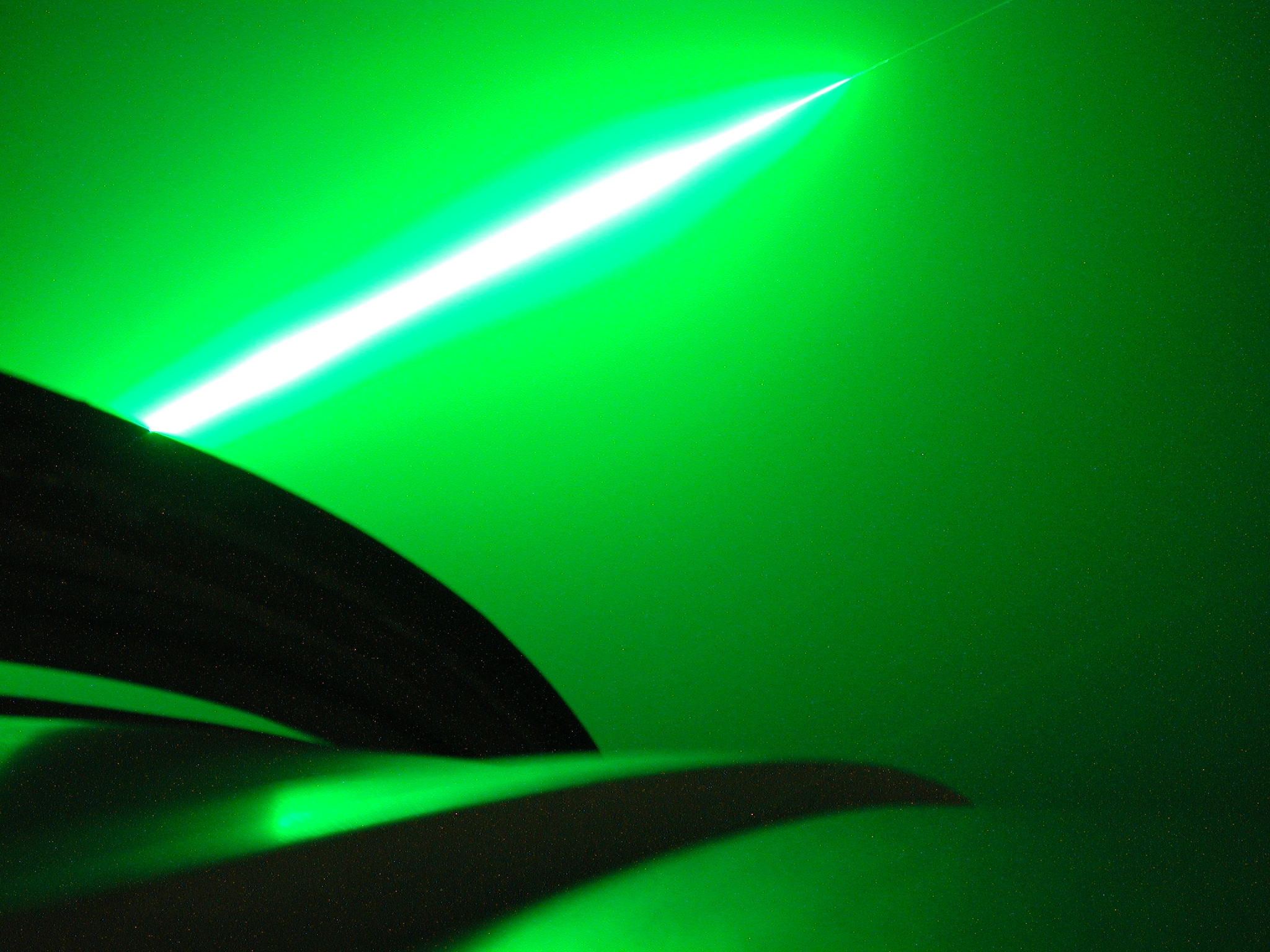 The brilliant green beam of the lidar at the Mauna Loa Observatory (MLO) measures aerosols and water vapor high in the stratosphere. This unretouched image was made when fog briefly formed during an observing session. The camera The camera was leaned against the side of the dome that houses the Dobson spectroradiometer that measures the ozone layer. Hawaii, Mauna Loa.